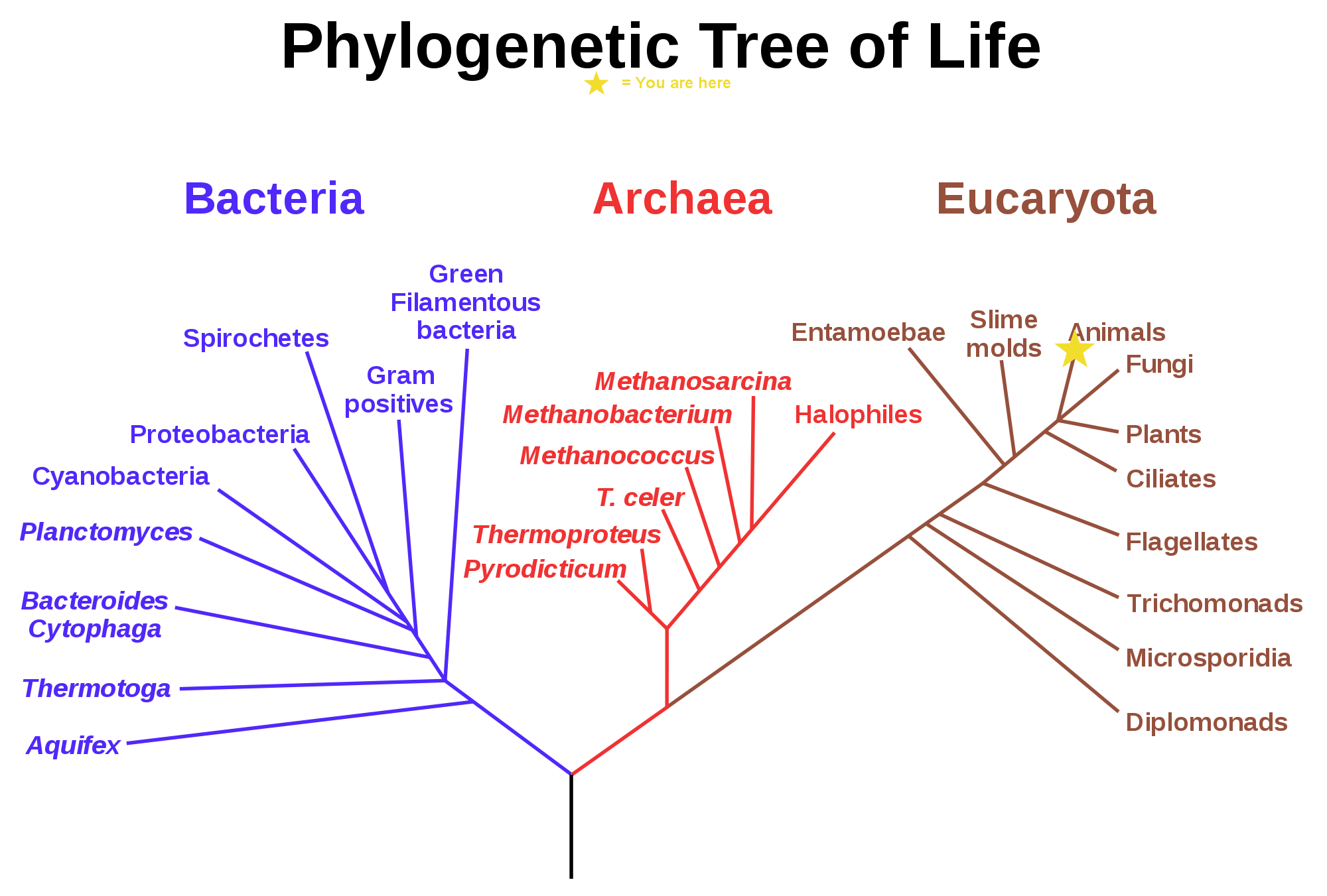 A phylogenetic tree of living things, based on RNA data and proposed by Carl Woese, showing the separation of bacteria, archaea, and eukaryotes. Trees constructed with other genes are generally similar, although they may place some early-branching groups very differently, thanks to long branch attraction. The exact relationships of the three domains are still being debated, as is the position of the root of the tree. It has also been suggested that due to lateral gene transfer, a tree may not be the best representation of the genetic relationships of all organisms. For instance some genetic evidence suggests that eukaryotes evolved from the union of some bacteria and archaea (one becoming an organelle and the other the main cell).